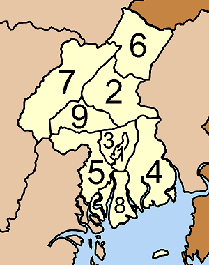 Map of Mueang Phang Nga district, Phang Nga province, Thailand, with the communes (tambon) numbered. Thai Chang (ท้ายช้าง) Nop Pring (นบปริง) Tham Nam Phut (ถ้ำน้ำผุด) Bang Toei (บางเตย) Tak Daet (ตากแดด) Song Phraek (สองแพรก) Thung Kha Ngok (ทุ่งคาโงก) Ko Pan Yi (เกาะปันหยี) Pa Ko (ป่ากอ)